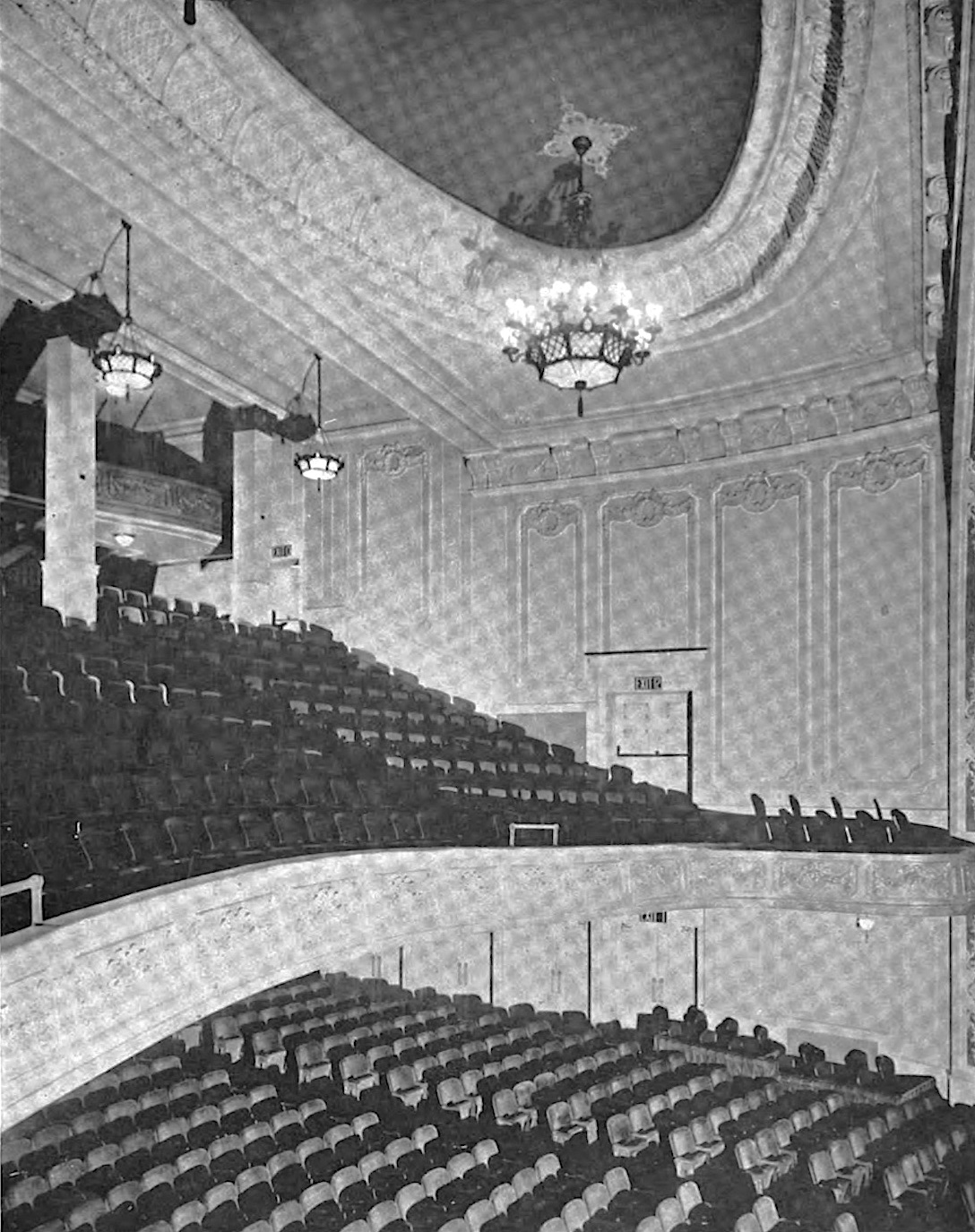 Central Theatre interior, view of house